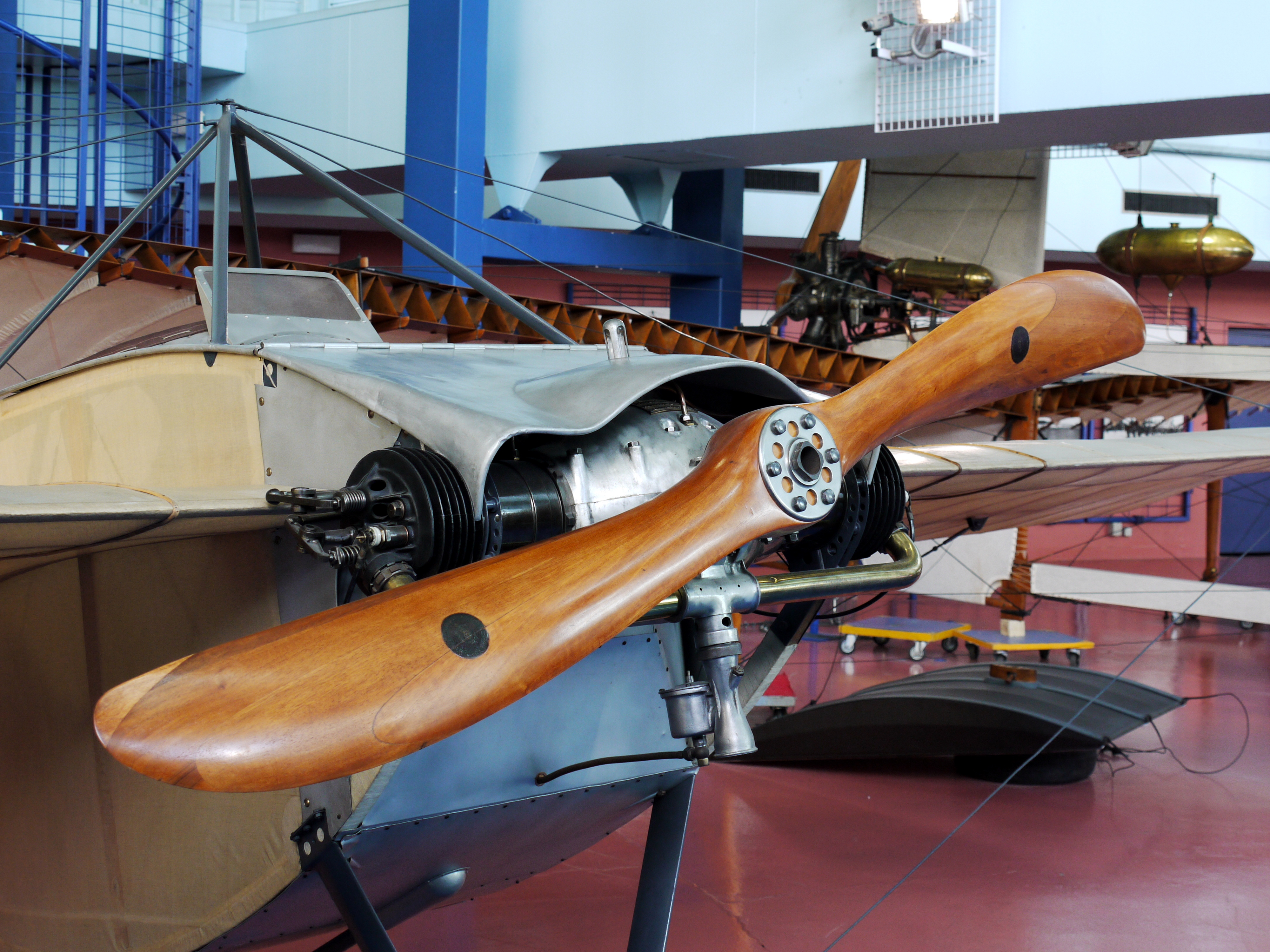 Nieuport 2N aircraft, Museum of Air and Space Paris, Le Bourget (France)